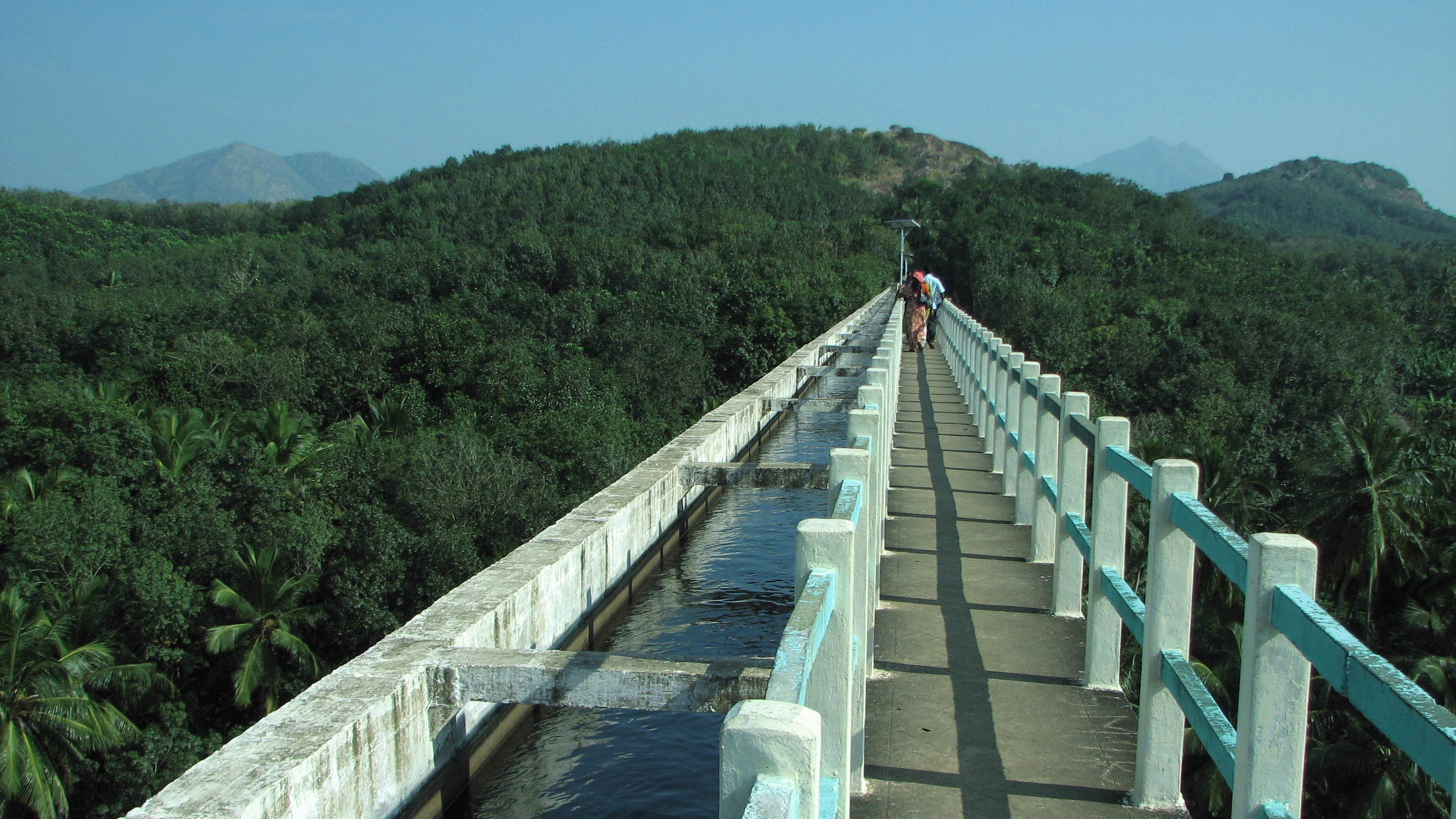 Self-made Image ; Author's Name : Infocaster